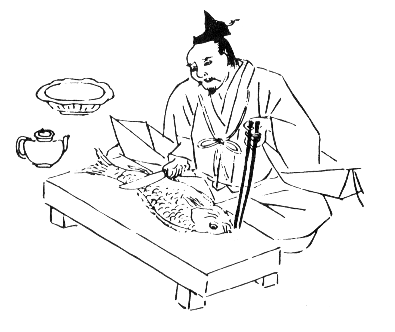 From Shichiju ichiban shokunin utaawase 57th "houchounin"